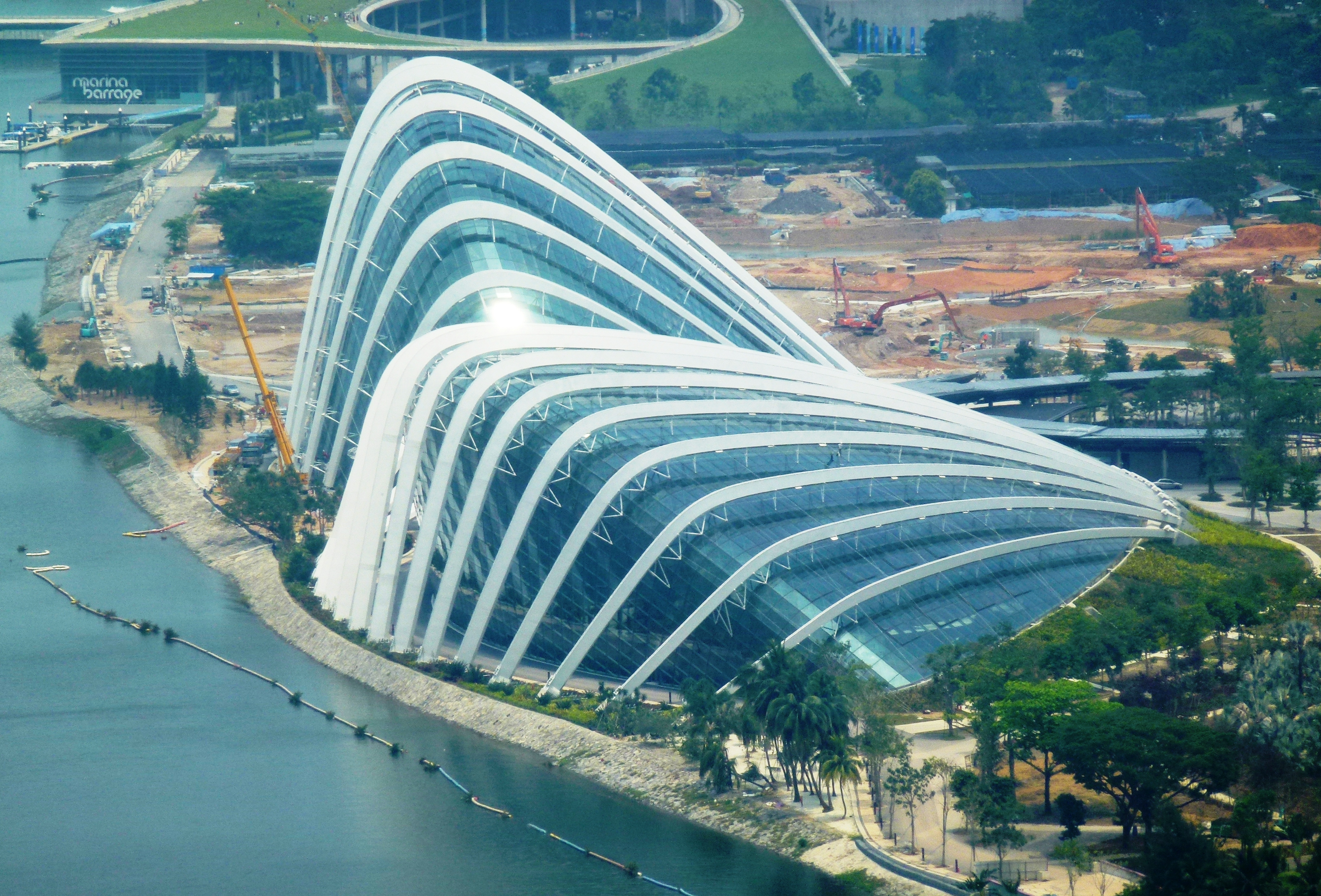 Gardens by the Bay, Singapore - View from Fairmont Swisshotel